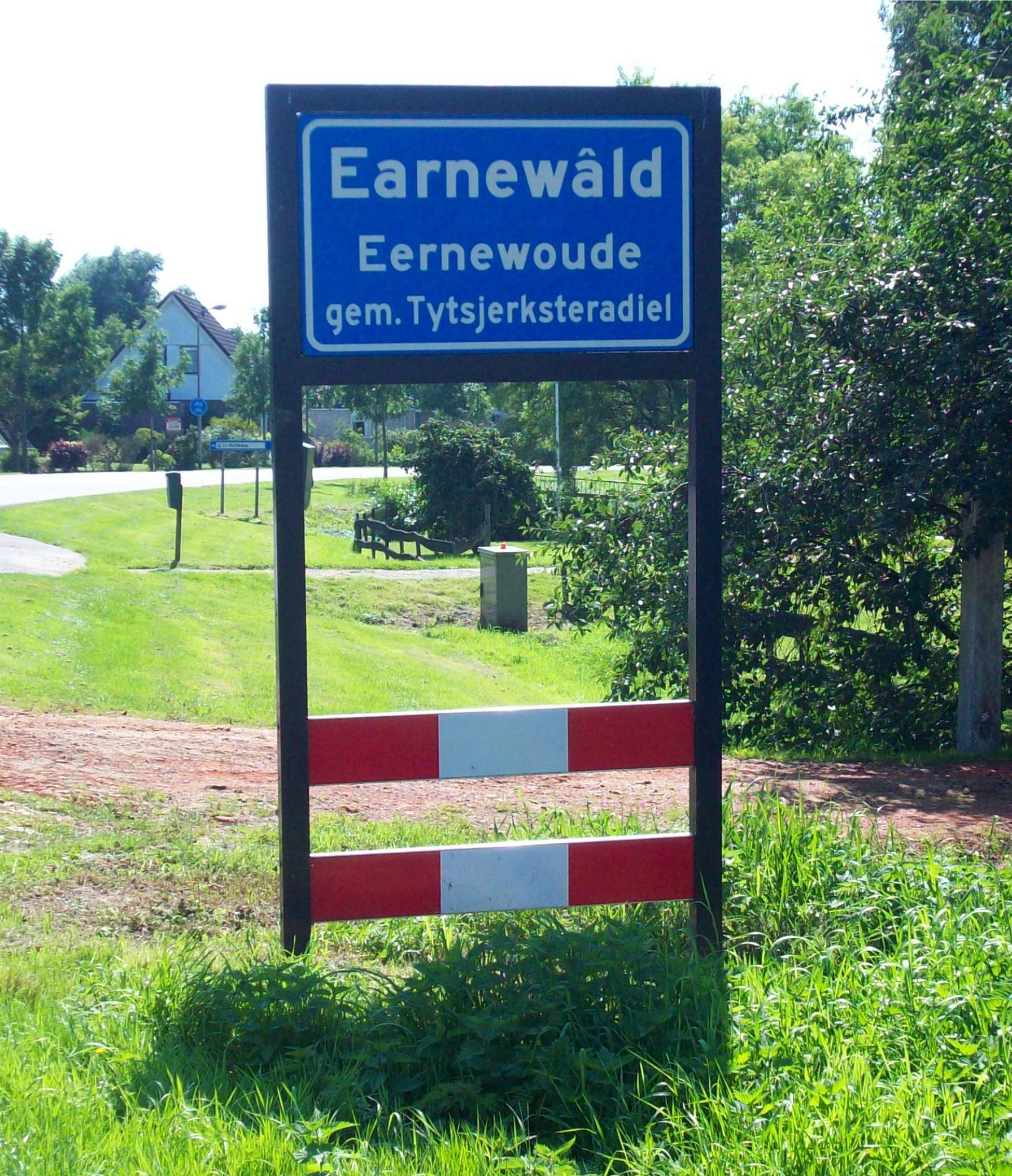 Earnewâld is a village in Tytsjerksteradiel